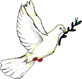 Peace dove